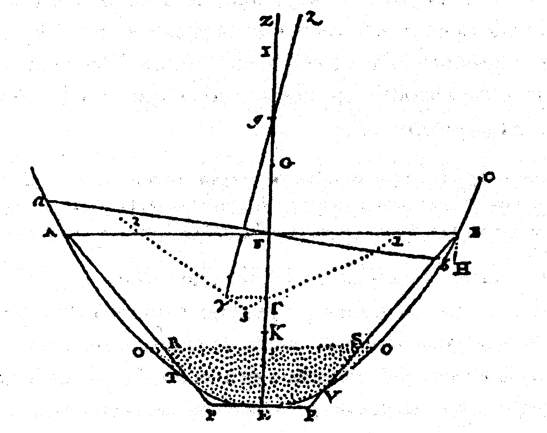 Diagram of the metacentre by Pierre Bouguer